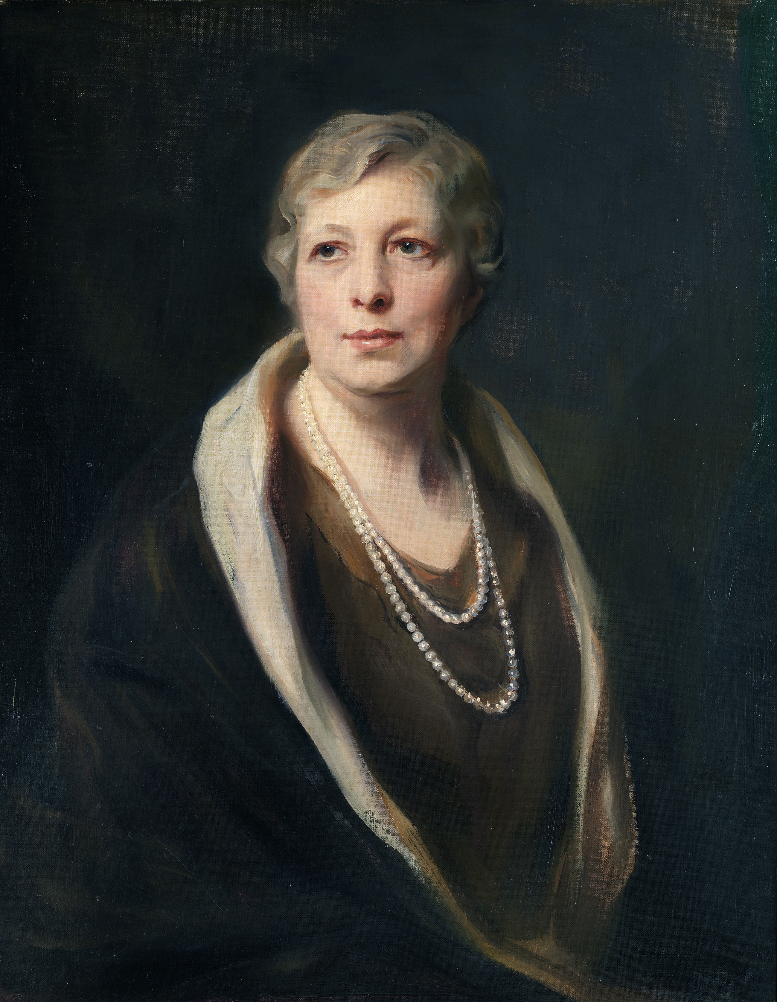 Olive Thring oil on canvas 89 x 71cm signed b.r.: de Laszlo/1933 A lotnote says: Property from the Estate of the late Mrs Joan Thring. Mrs Joan Thring was Margot Fonteyn and Rudolf Nureyev's manager and was briefly married to the Australian actor Frank Thring. The present sitter was Frank Thring's mother.